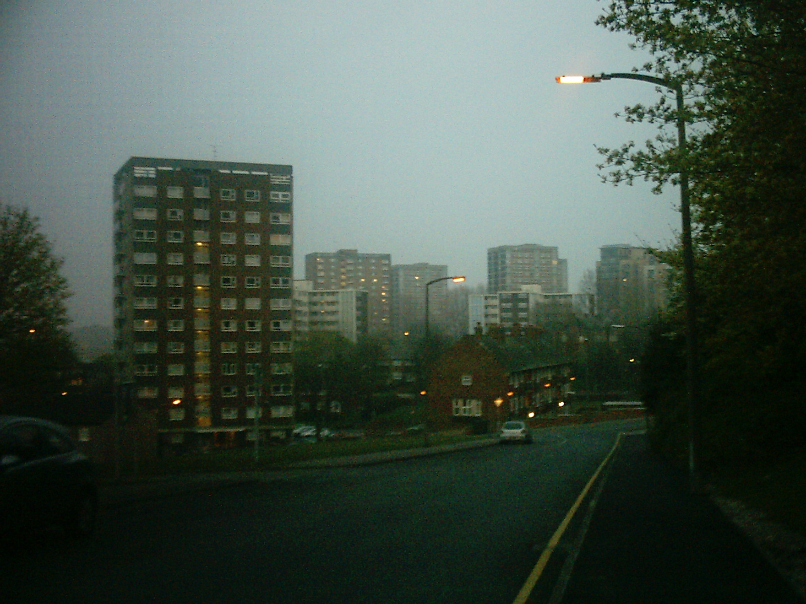 Little London in Leeds, West Yorkshire, UK looking South on an evening. Taken on the 15th April 2009